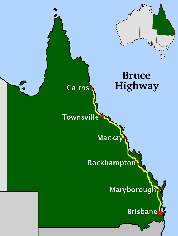 Map of Bruce Highway, Queensland Locator map taken from :Image:QLD in Australia map.png